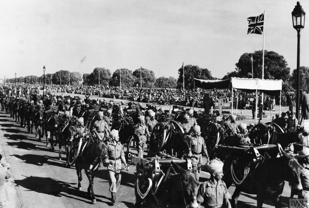 Delhi Victory Week Parade Indian Army mountain guns carried on pack mules pass the saluting base during the Victory Parade in Delhi.